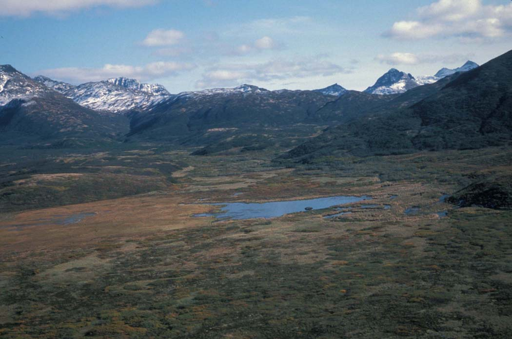 Alaska Peninsula National Wildlife Refuge Landscape [1]